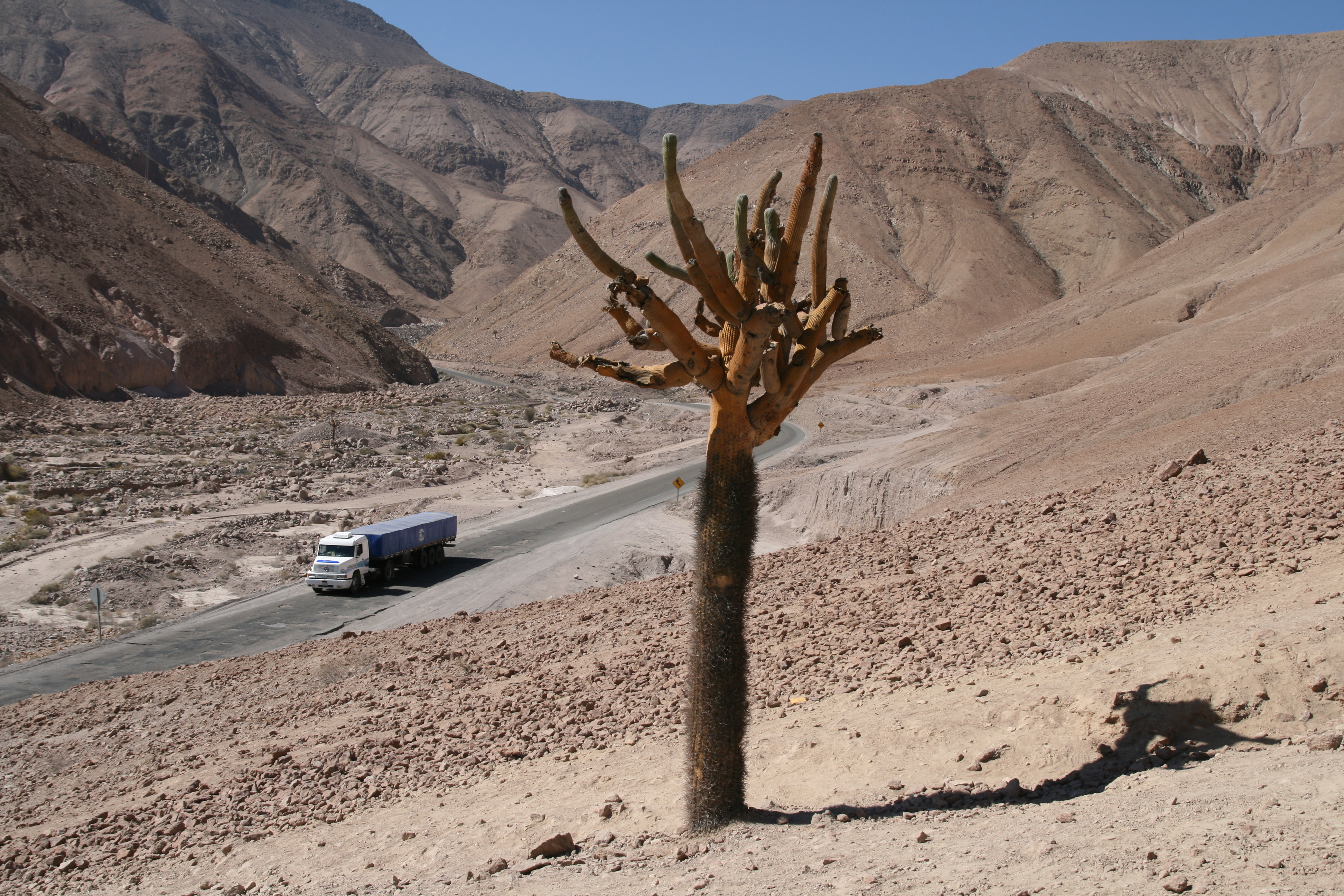 Browningia candelaris near Route 11 in Chile (Región de Arica y Parinacota) between Poconchile and Socoroma